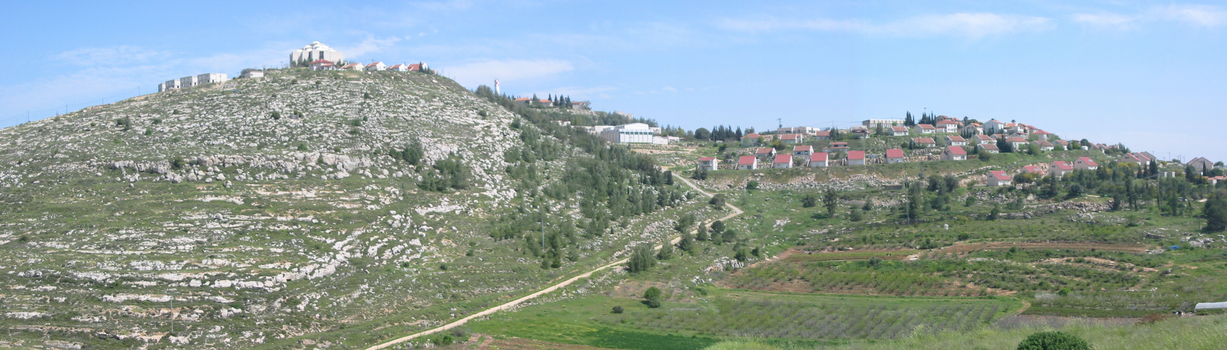 Shilo, taken from Tel Shilo